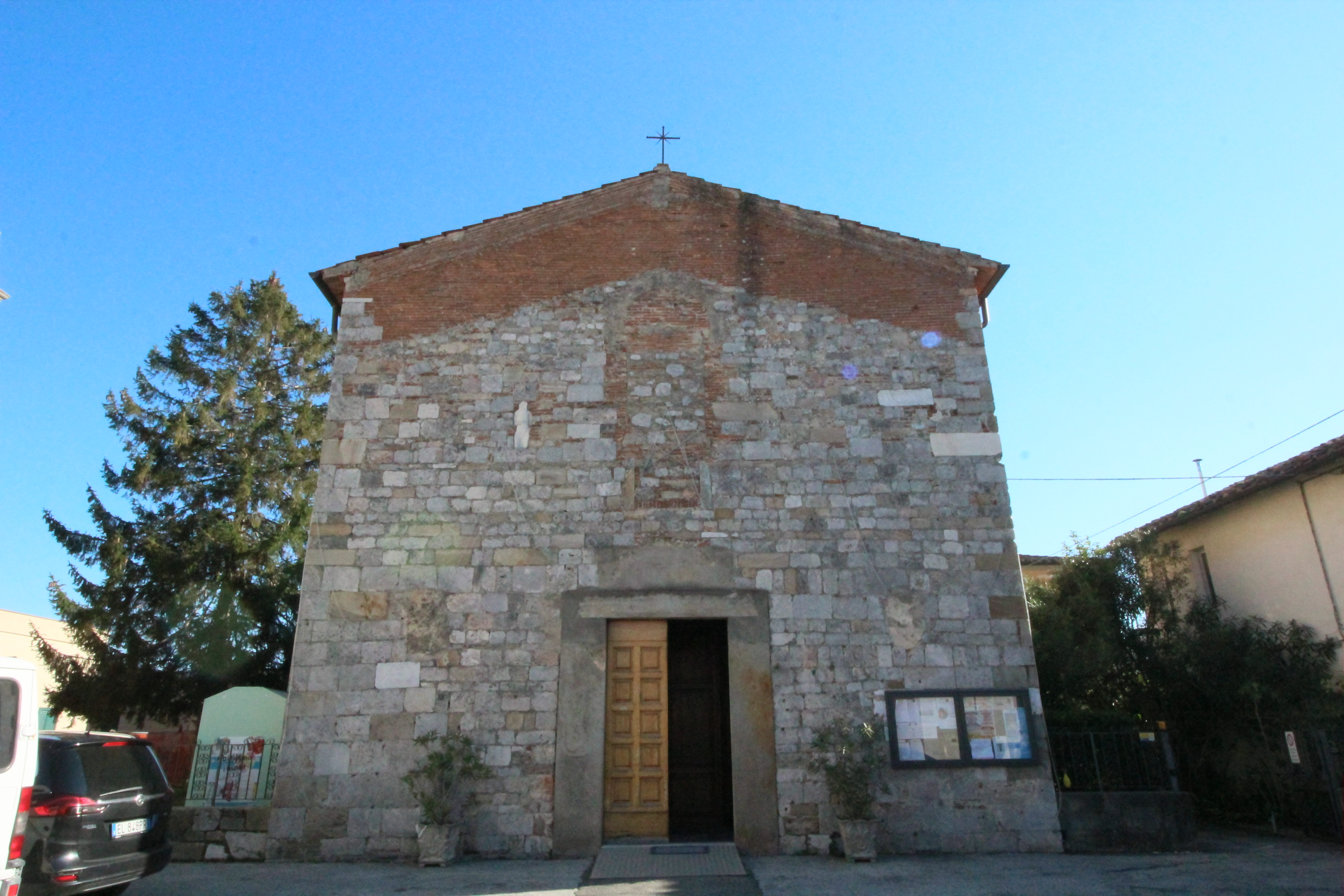 San Lorenzo, Church in San Lorenzo alle Corti, hamlet of Cascina, Province of Pisa, Tuscany, Italy